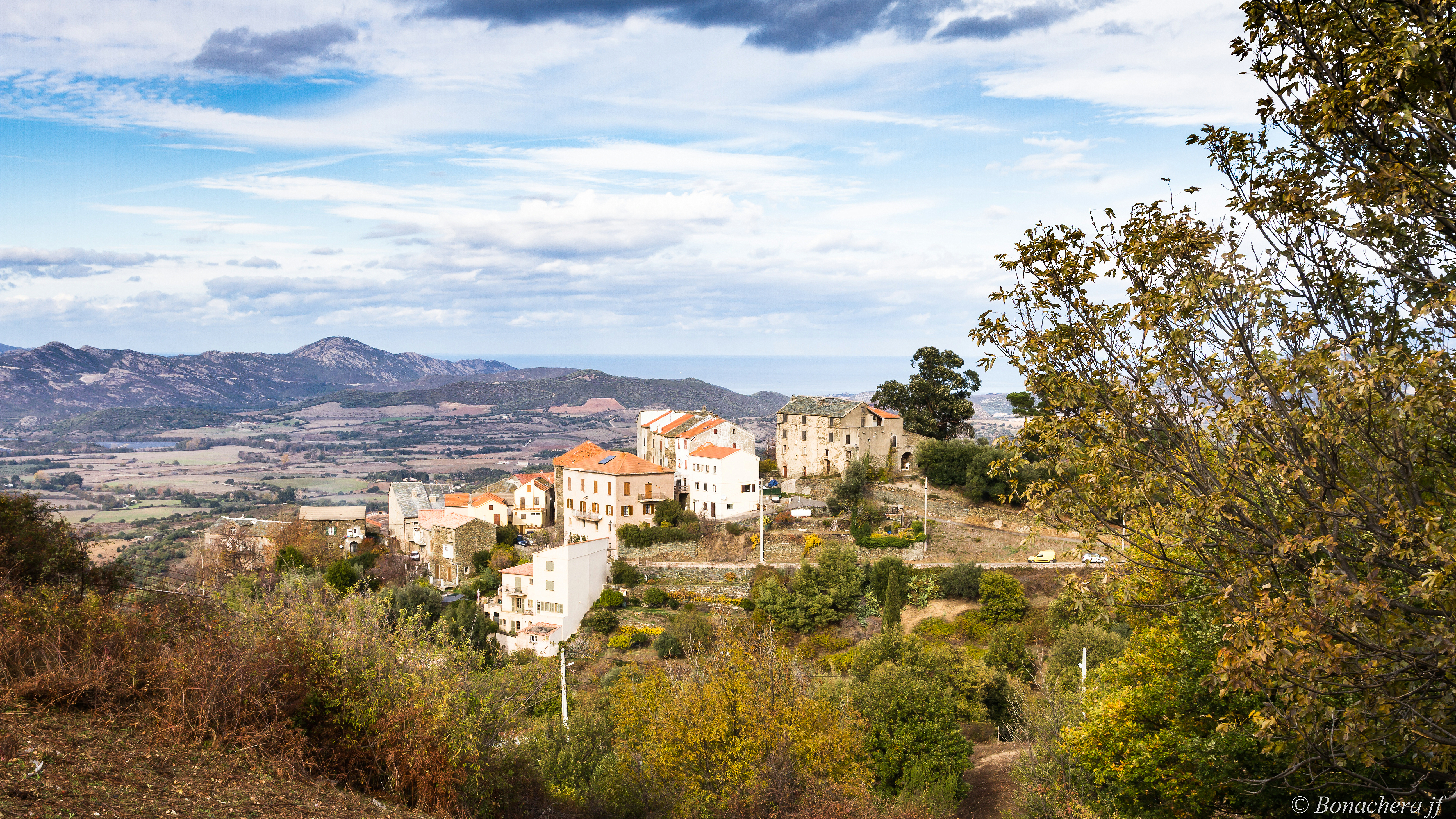 Vallecalle: vue du hameau Nord (Capanella?)